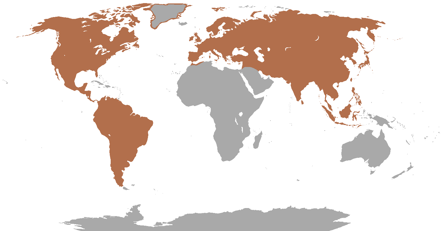 Map showing the range of the Deer and allies.